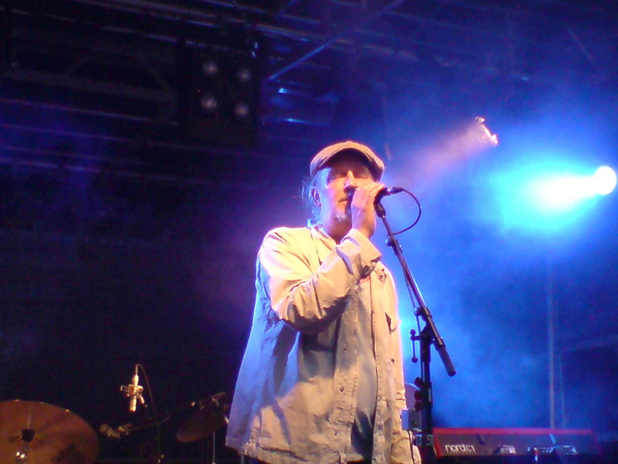 Plura Jonsson in the Swedish rock band Eldkvarn performing in Trädgårdsföreningen in Gothenburg on July 10, 2009